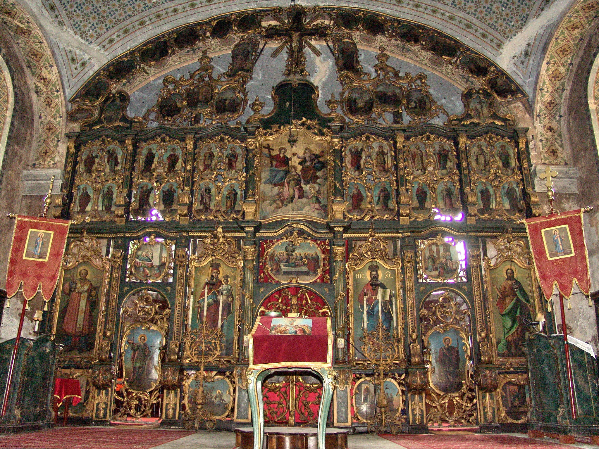 Serbian Orthodox church of the Dormition of the Mother of God in Zrenjanin - iconostasis